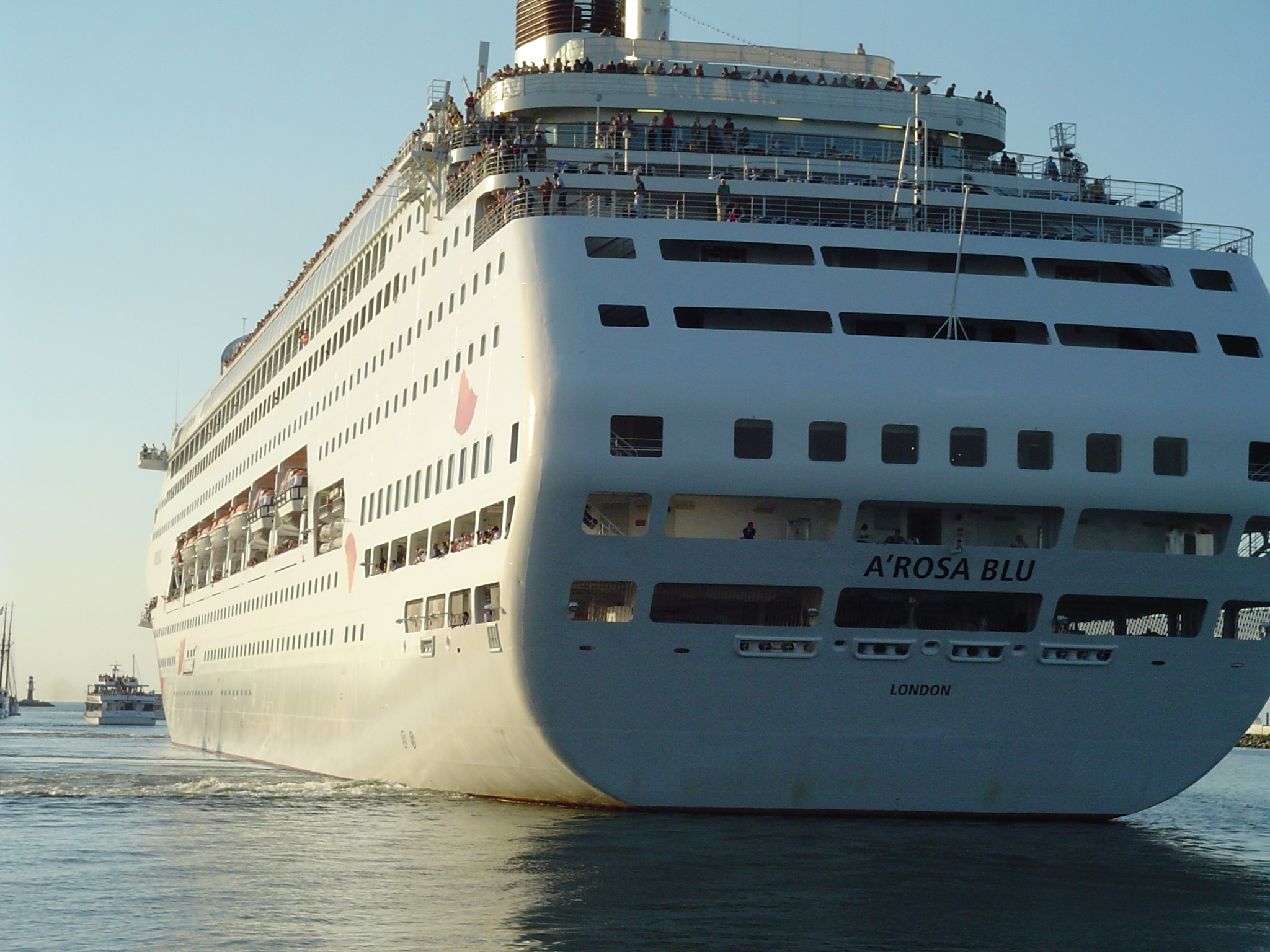 A ship in Germany dubbed the Arosa Blu. Taken by me.